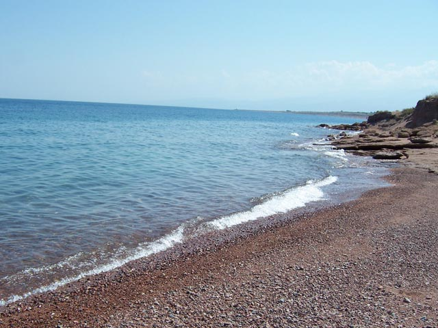 Озеро Иссык-Куль